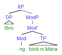 Simplified syntax tree adapted from Scontras (2012) example 14a, made with